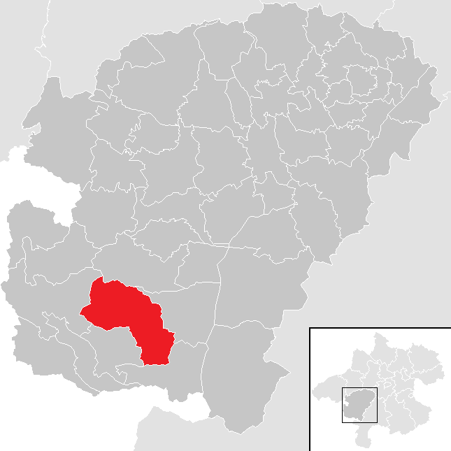 District Vöcklabruck